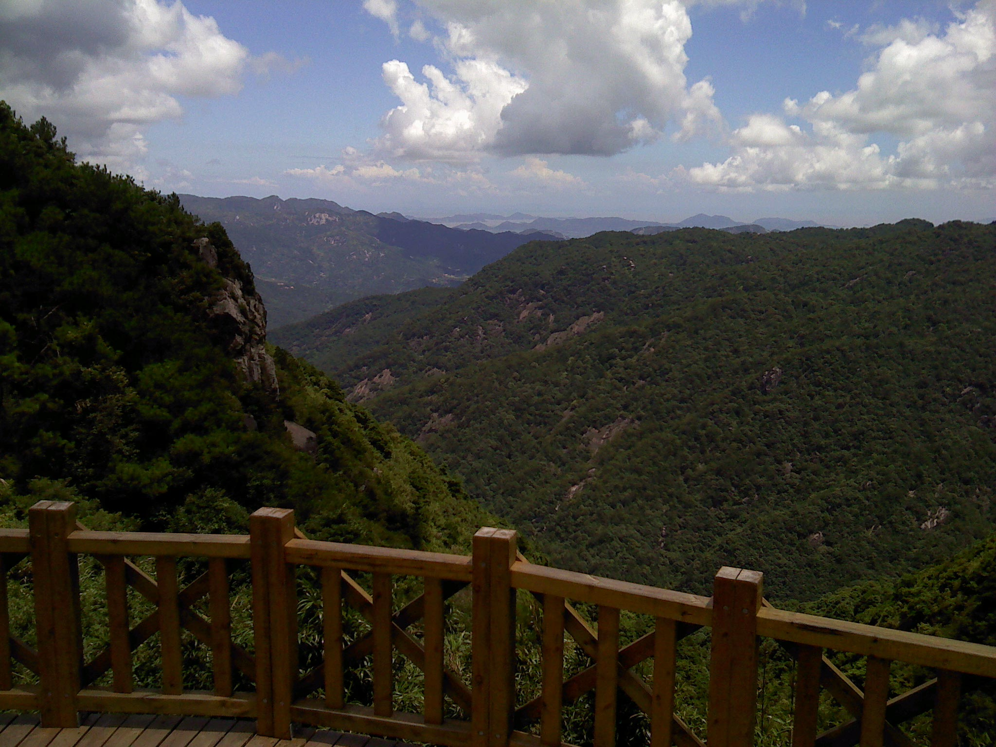 鼓岭风光 - Scenery of Guling Mountain - 2010.08